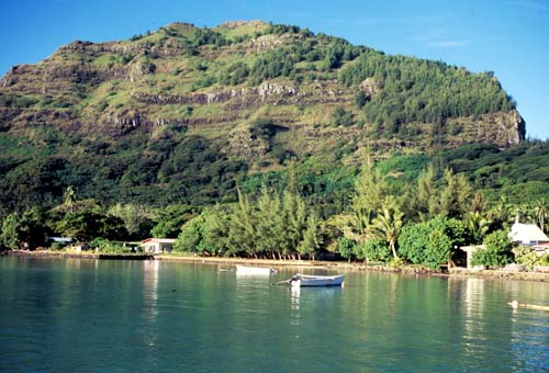 View of Rikitea's waterfront from the water, with Mt. Duff visible in the background. Mangareva Island, Gambier Islands, French Polynesia